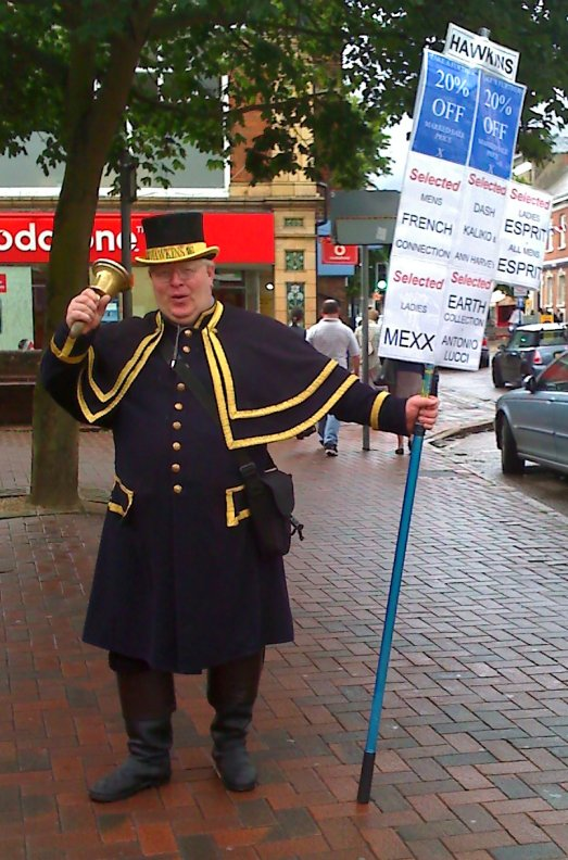 Town crier Alan Myatt in Hitchin town centre, Hertfordshire, England, UK.